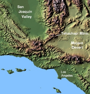 Tehachapi Mountains © 2004 Matthew Trump